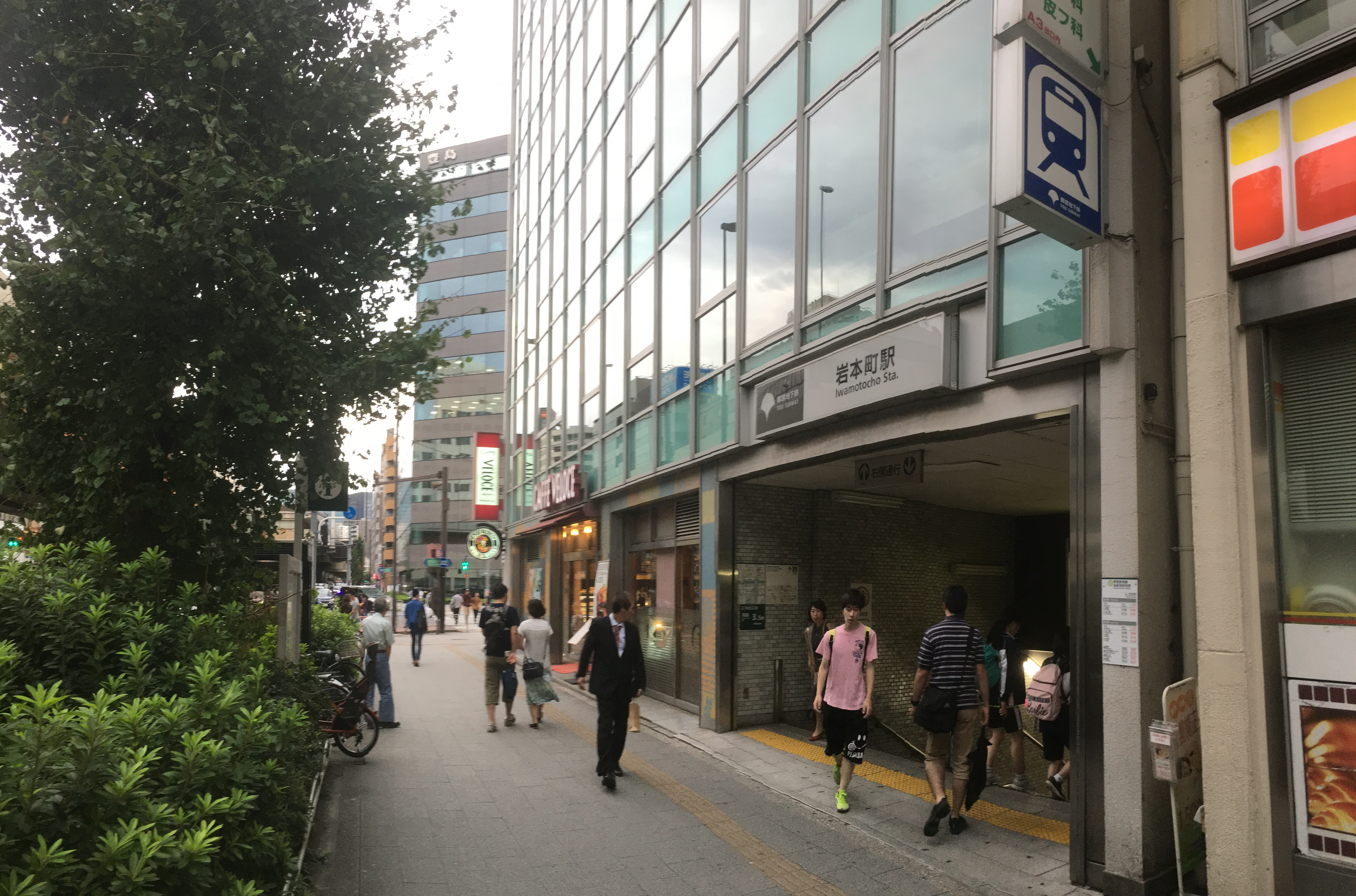 岩本町駅のA3出口 (Iwamotocho Station A3 exit)